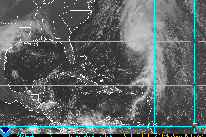 Satellite picture of hurricane Rafael of 2012 as a category 1.